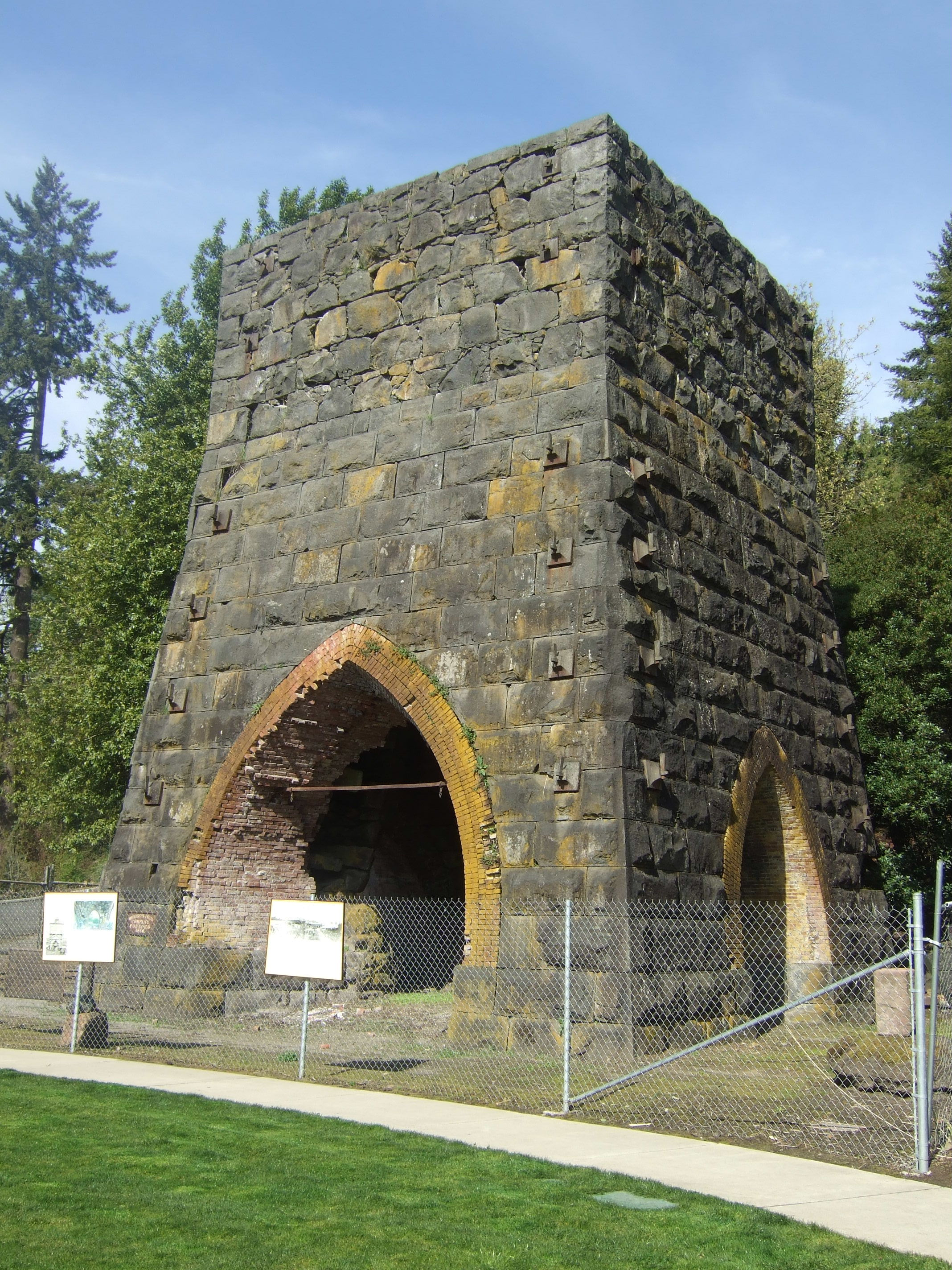 The remains of the Oregon Iron Company Furnace, Lake Oswego, Oregon, April 2008. Added to National Register of Historic Places in 1974. (Building #74001674).